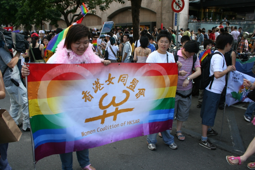 Women Coalition of HKSAR on Taiwan Pride 2005 2005-10-01 14:07:00